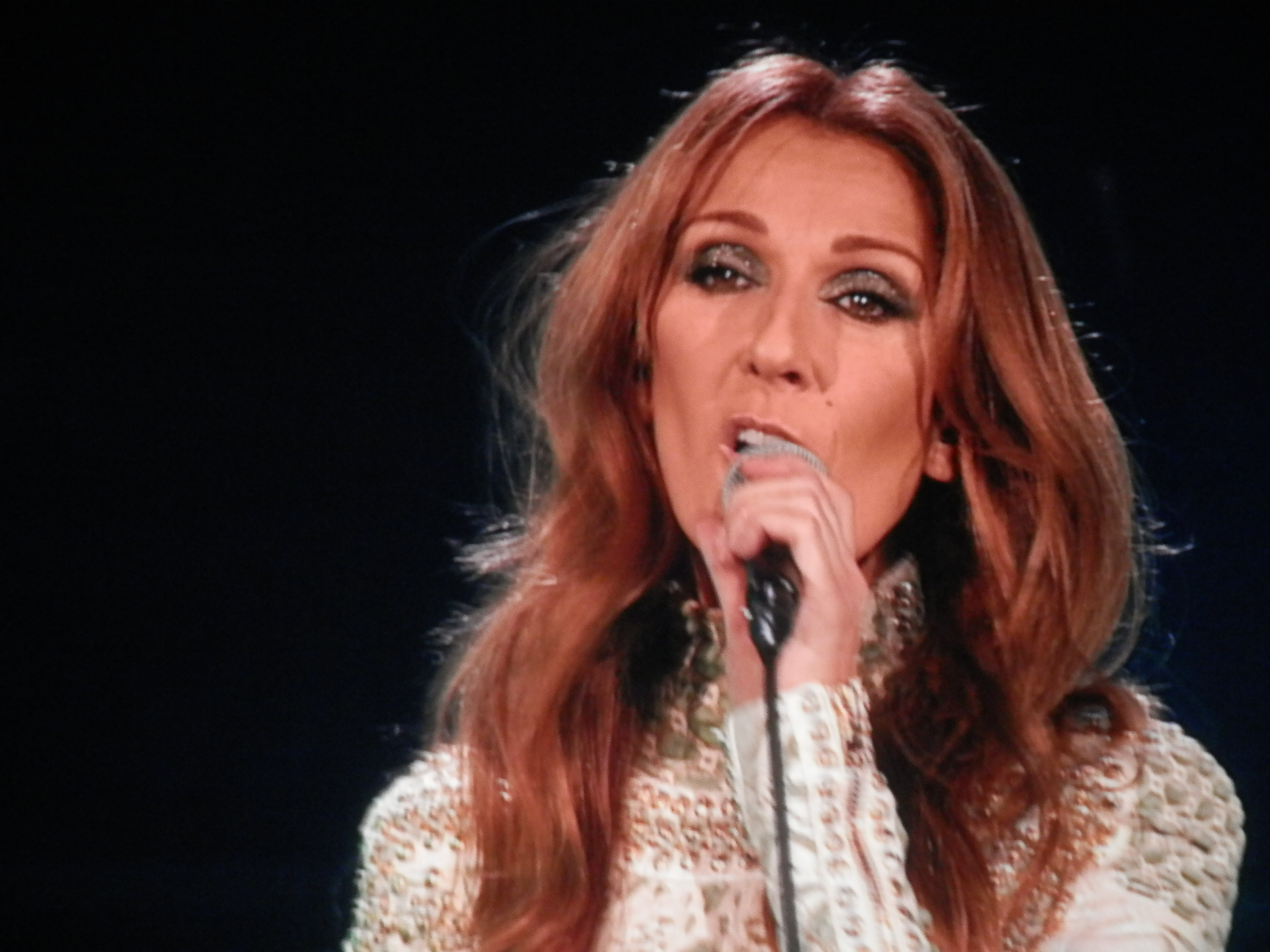 Celine Dion in Paris, Bercy, 2013-11-25